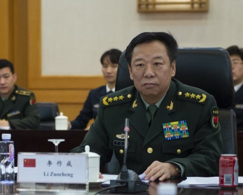 BEIJING (Jan. 15, 2019) Chief of Naval Operations (CNO) Adm. John Richardson meets with Chief of Staff of the Joint Staff Department under China’s Central Military Commission (CMC) Gen. Li Zuocheng and other senior Chinese defense officials in Beijing. Richardson is on a three-day visit to Beijing and Nanjing to continue the ongoing dialog between the two militaries and encourage professional interactions at sea, specifically addressing risk reduction and operational safety measures to prevent unwanted and unnecessary escalation. (U.S. Navy Photo by Chief Mass Communication Specialist Elliott Fabrizio/Released)